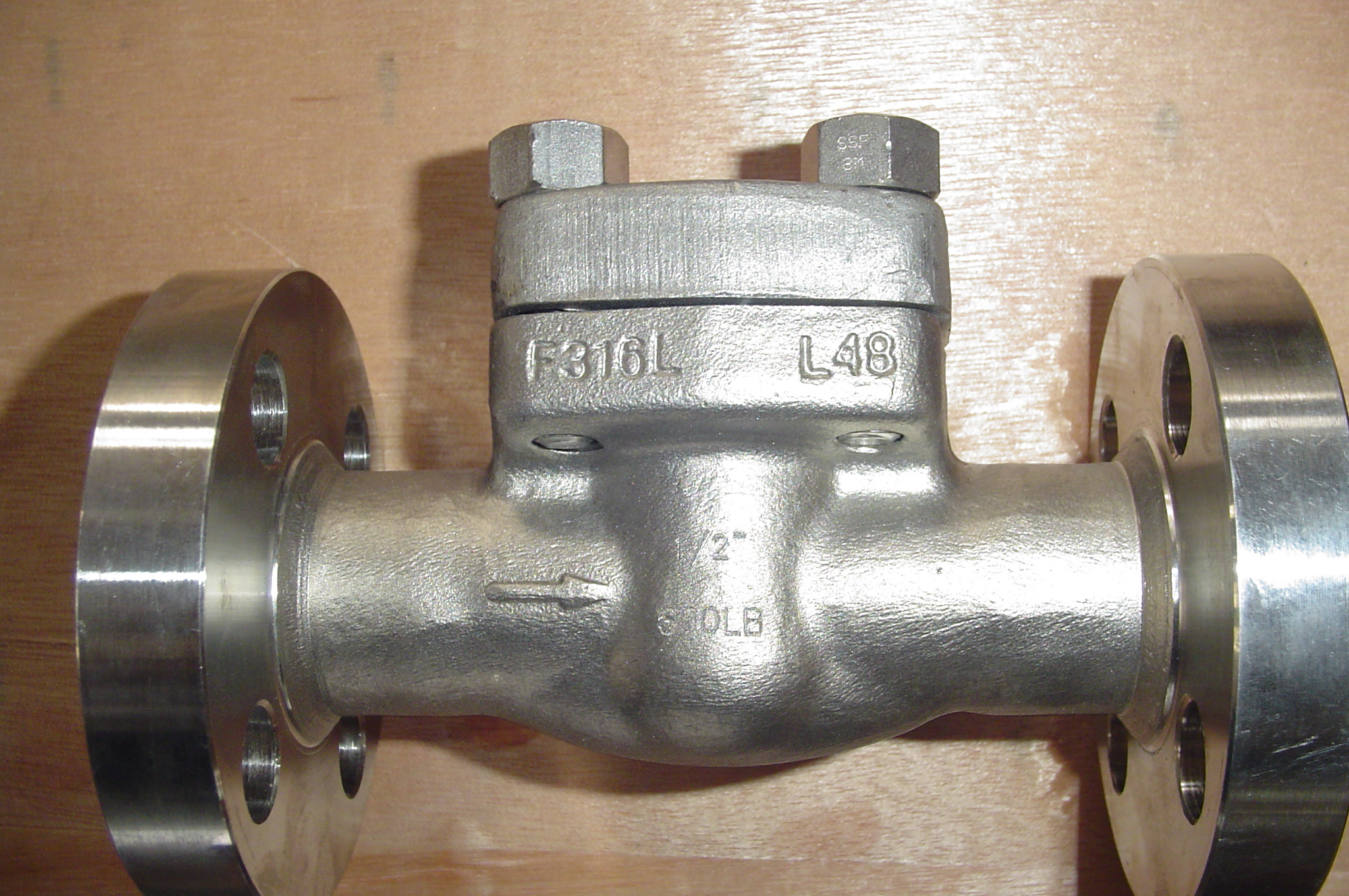 Check valves. Valves and are generally made of plastic or steel, the latter being the most widely used in chemical and petrochemical applications. Steel grades range from the most common type, namely carbon steel, with standard stainless steel being the second most common. Stainless steel alloys, which include nickel or copper are used in applications that require higher corrosion or heat resistance. In such cases, the most commonly used valve configurations -- ball valves, gate valves, check valves, globe valves and butterfly valves -- are often forged or cast as duplex valves, super duplex valves, alloy 20 valves, monel valves, inconel valves, incoloy valves and 254 SMO valves (6Mo valves). Titanium valves are also used in some highly corrosive applications. Titanium is not a stainless steel alloy.